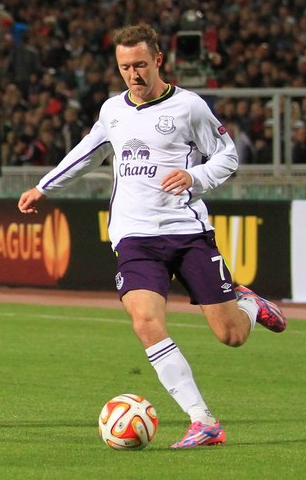 Aiden McGeady with Everton FC